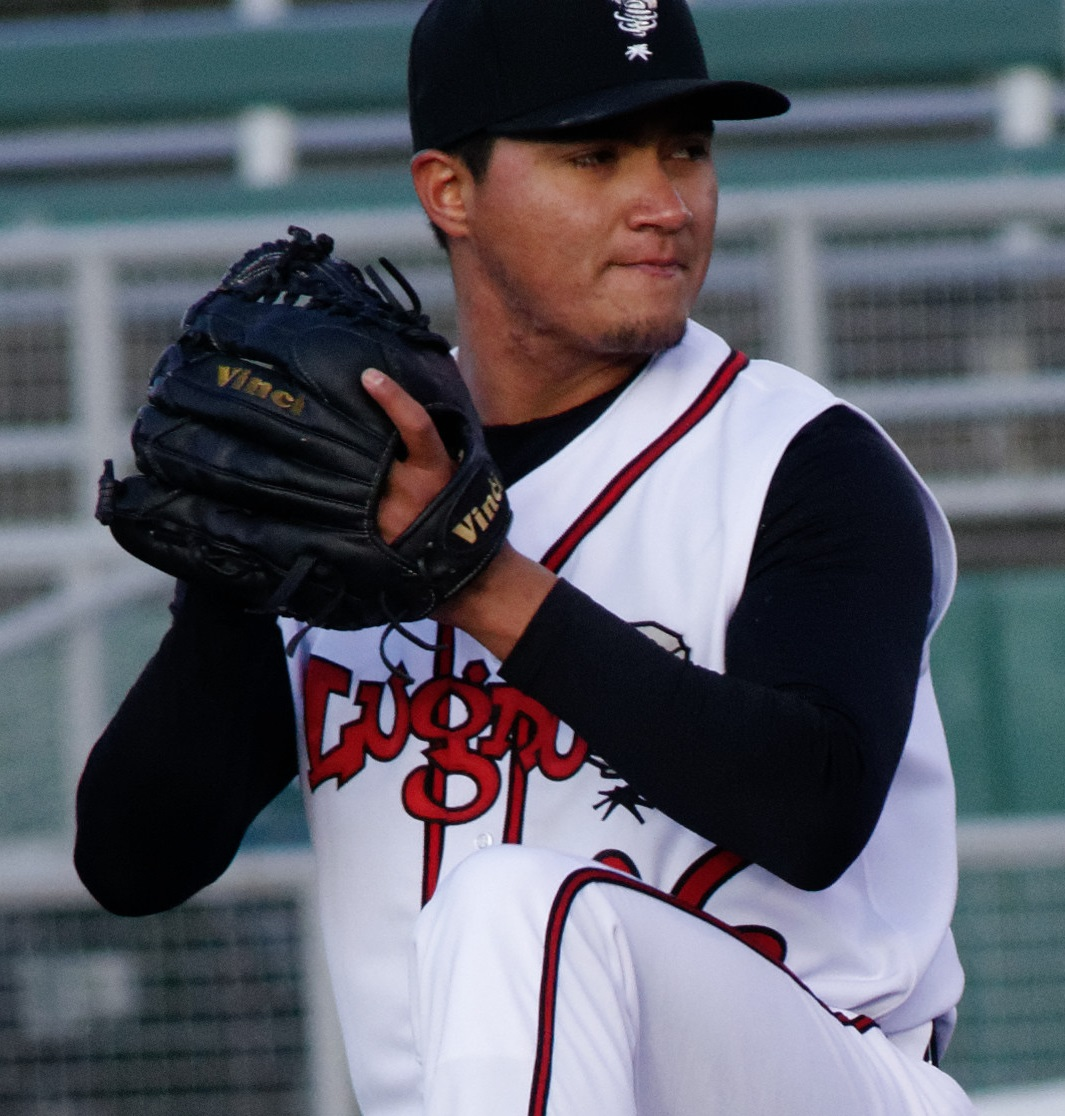 Francisco Ríos pitching for the Lansing Lugnuts on April 11, 2016